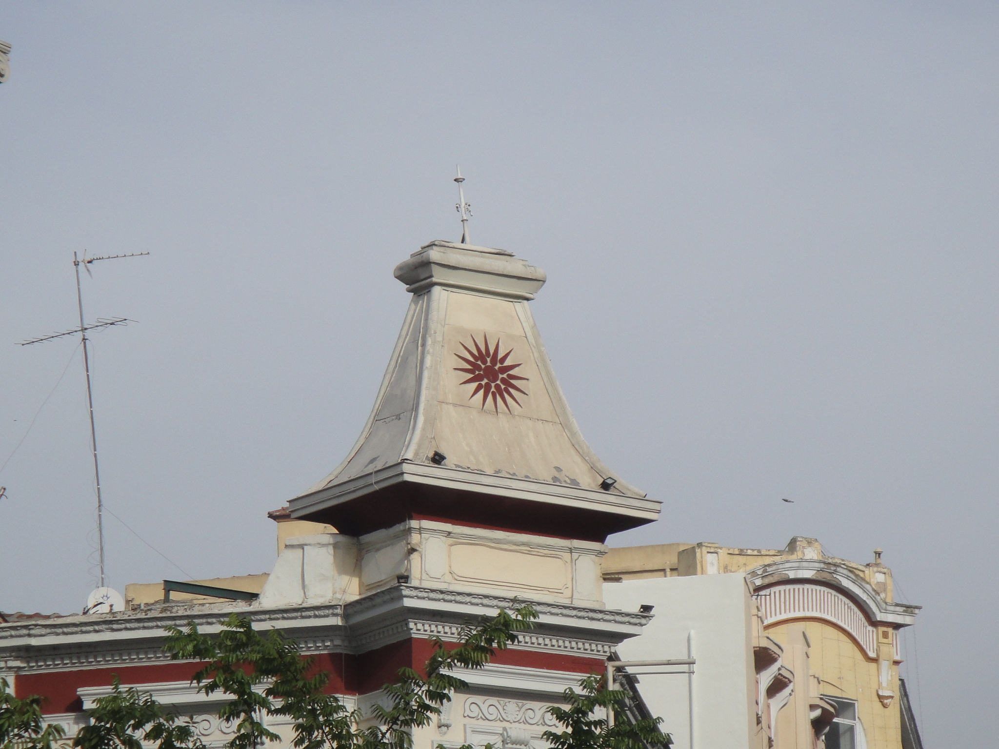 Flag of Kutlesh on a building in Solun, Greece